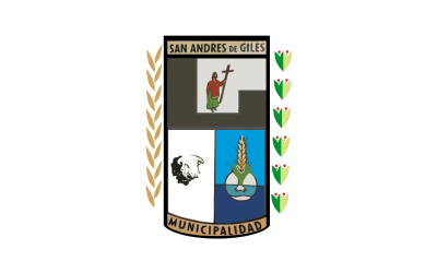 Flag of San Andrés de Giles. (The coat of arms on a white cloth)